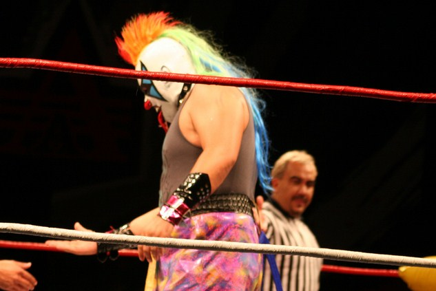 Pschyo Clown at a AAA show on March 28, 2009, in Sacramento, California. Cropped from original.